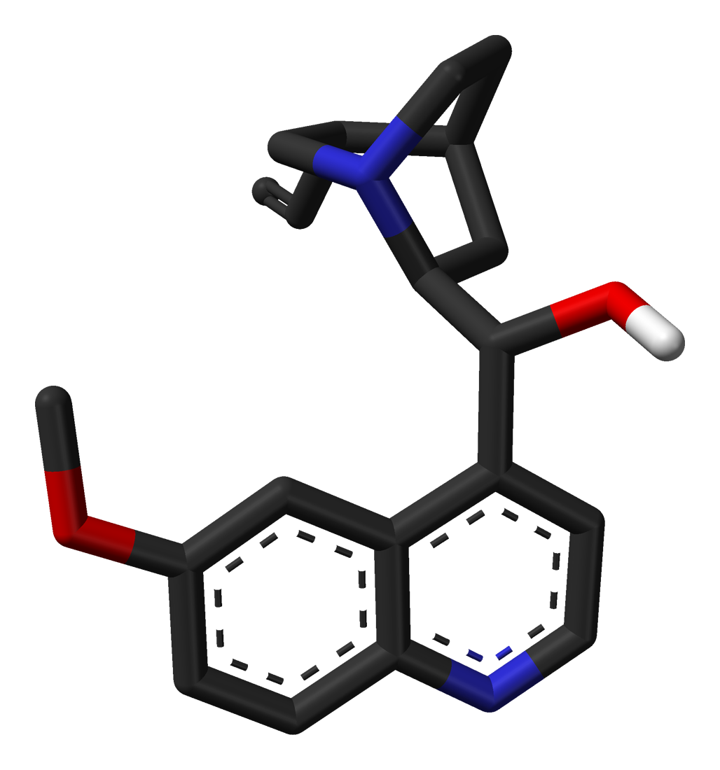 Stick model of the quinine molecule, as found in the crystalline form. X-ray diffraction data from B. Pniewska and A. Suszko-Purzycka (1989). "Structure of quinine monohydrate toluene solvate". Acta Crystallographica Section C 45: 638-642.